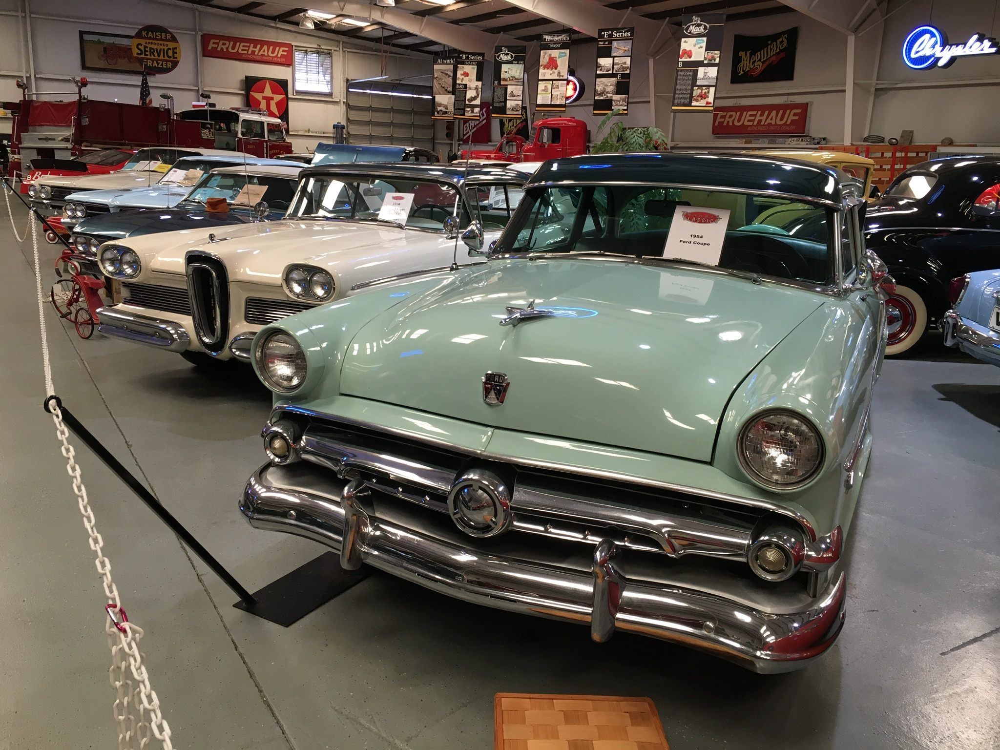 some classic cars in a car museum, including an Edsel Pacer